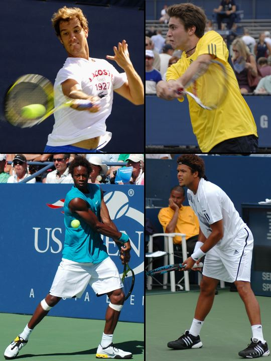 Richard Gasquet at the 2009 US Open - Gilles Simon at the 2008 US Open - Gael Monfils at the 2009 US Open - Jo-Wilfried Tsonga at the 2009 US Open